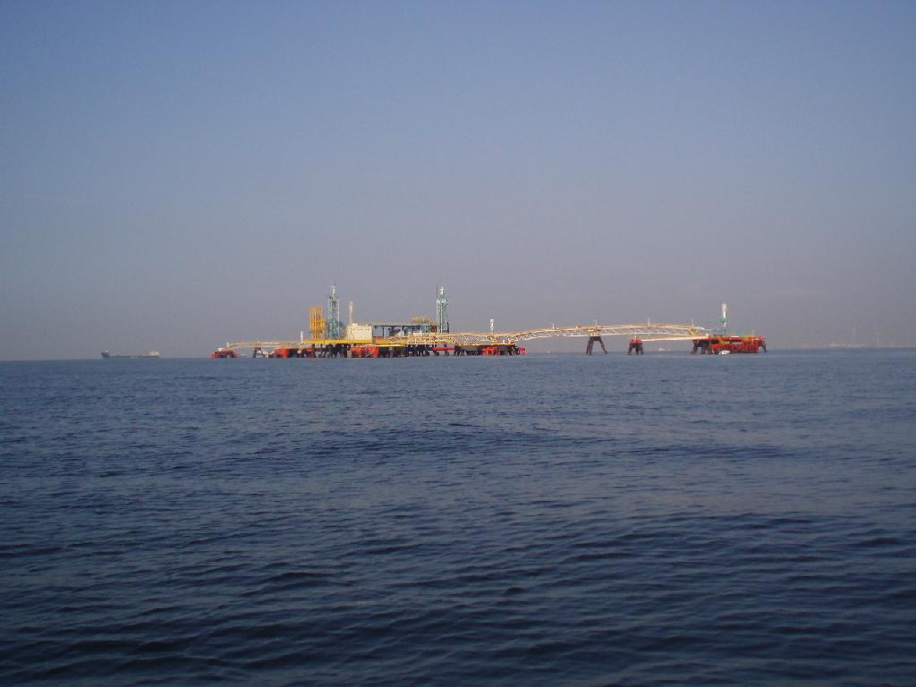 Isewan sea berth